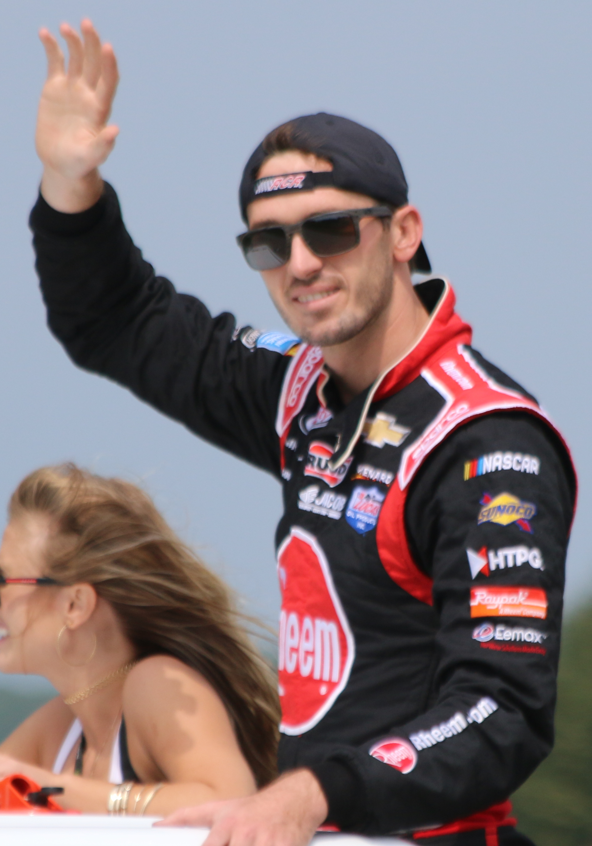 NASCAR driver Ben Kennedy during the driver's introductions lap at the 2017 Johnsonville 180 race in the Xfinity Series race at Road America.